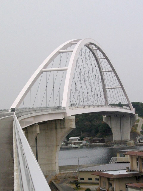 Shima Pearl bridge Nielsen Lohse beam bridge with basket handle type National Route 260(Shima Bypass) 志摩パールブリッジ（志摩大橋） バスケットハンドル型ニールセンローゼ橋 国道260号志摩バイパス